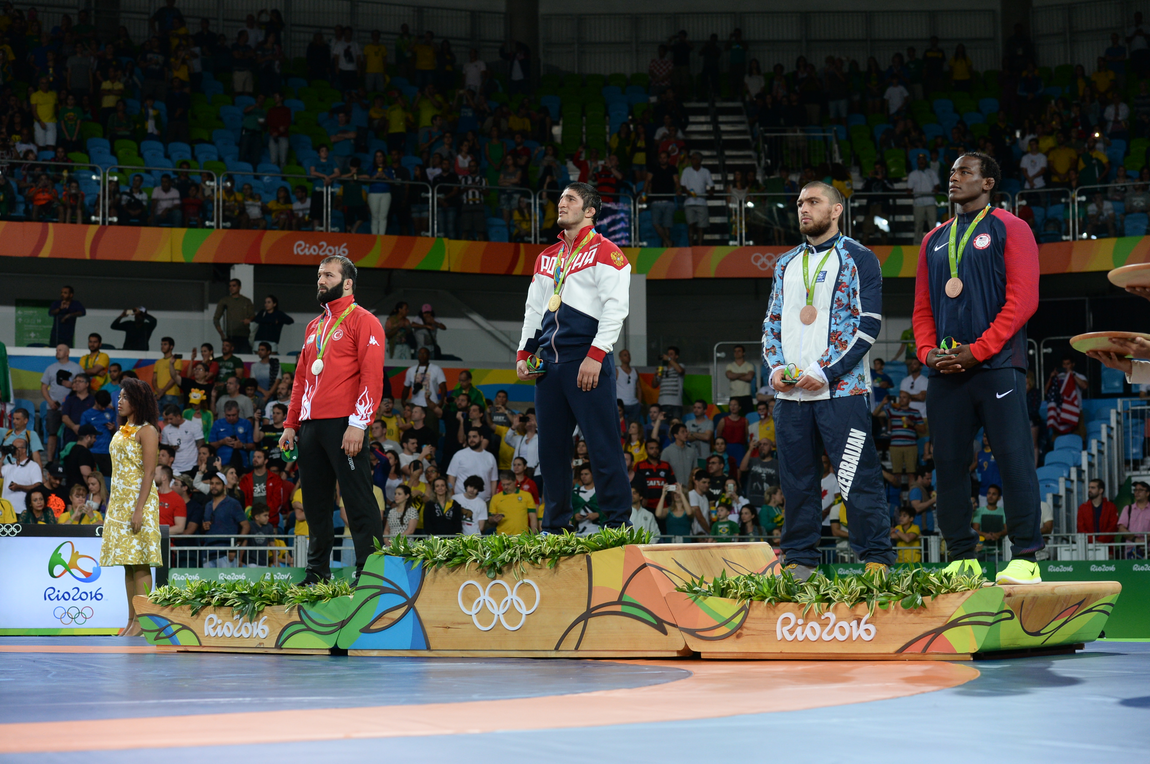 2016 Summer Olympics, Men's Freestyle Wrestling 86 kg awarding ceremony